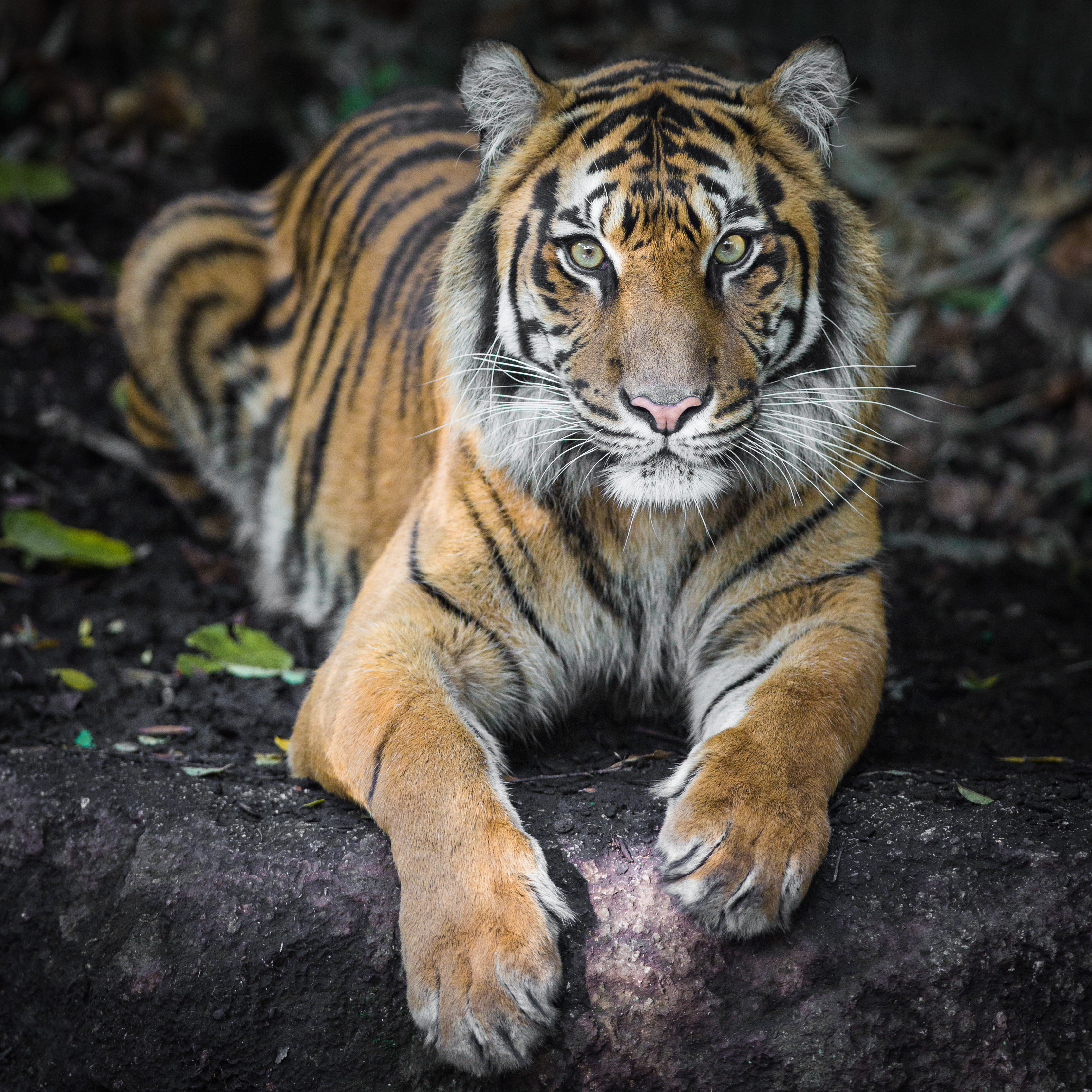 Indrah the Sumatran Tiger